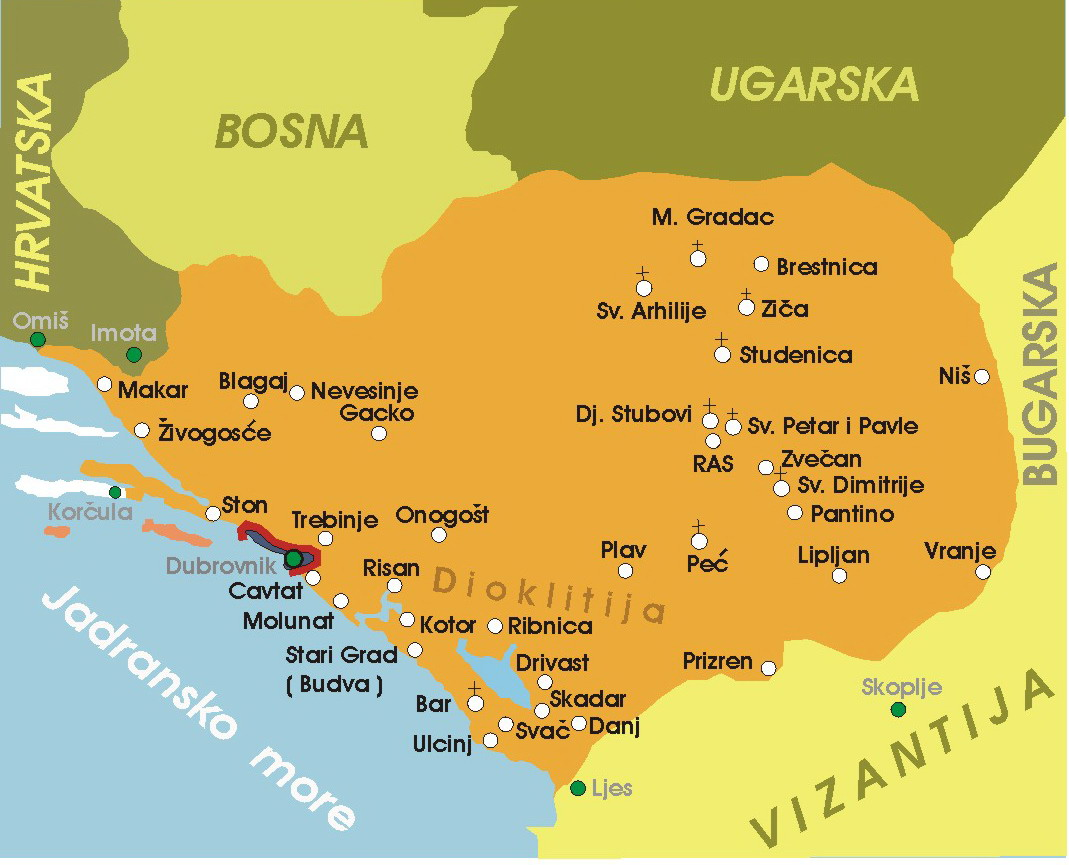 Serbia during the rule of Prince Stefan Nemanja.(Source: History of Ancient Balkan Countries, University of Belgrade, 1922)